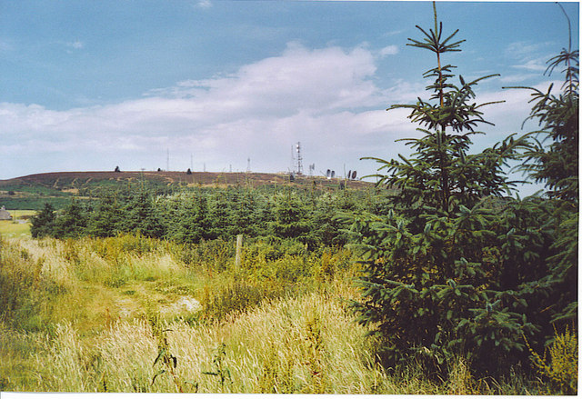 Mormond Hill This hill is the great landmark of Buchan. It rises above the surrounding farmland and is more distinctive for the range of masts it carries, and for the figures carved on its slopes. It was a cold war listening / defence early warning post for the RAF. Above, small forest plantations line the F&B Way, the old railway line between Strichen and Lonmay.